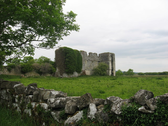 Rathcline Castle, Lanesborough, Co. Longford A medieval tower house, enlarged in the early 17th century, now forms a vast ruin. Looks impressive but is only one wall thick.